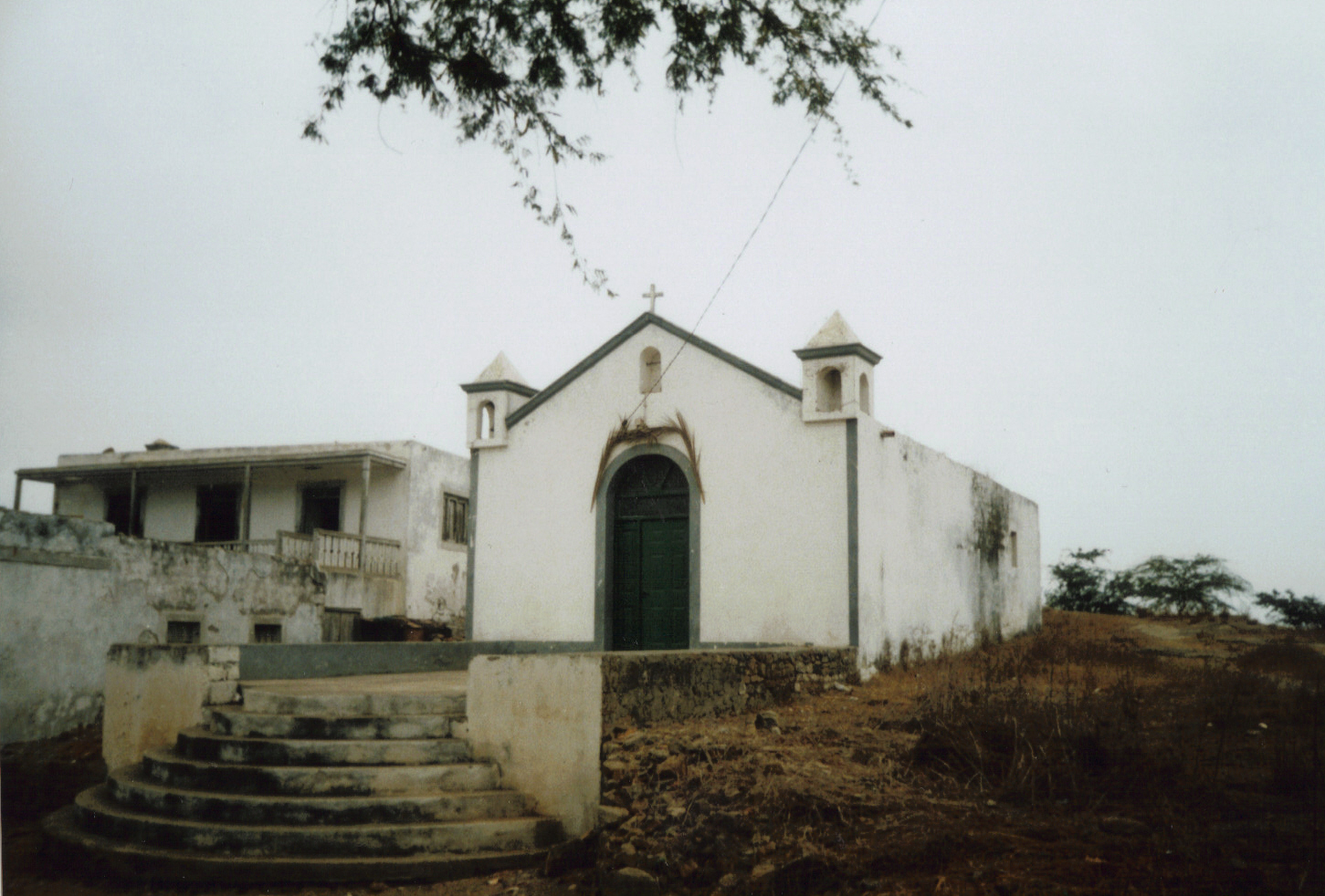 Church in Santa Bárbara, ilha Brava, Cabo Verde.